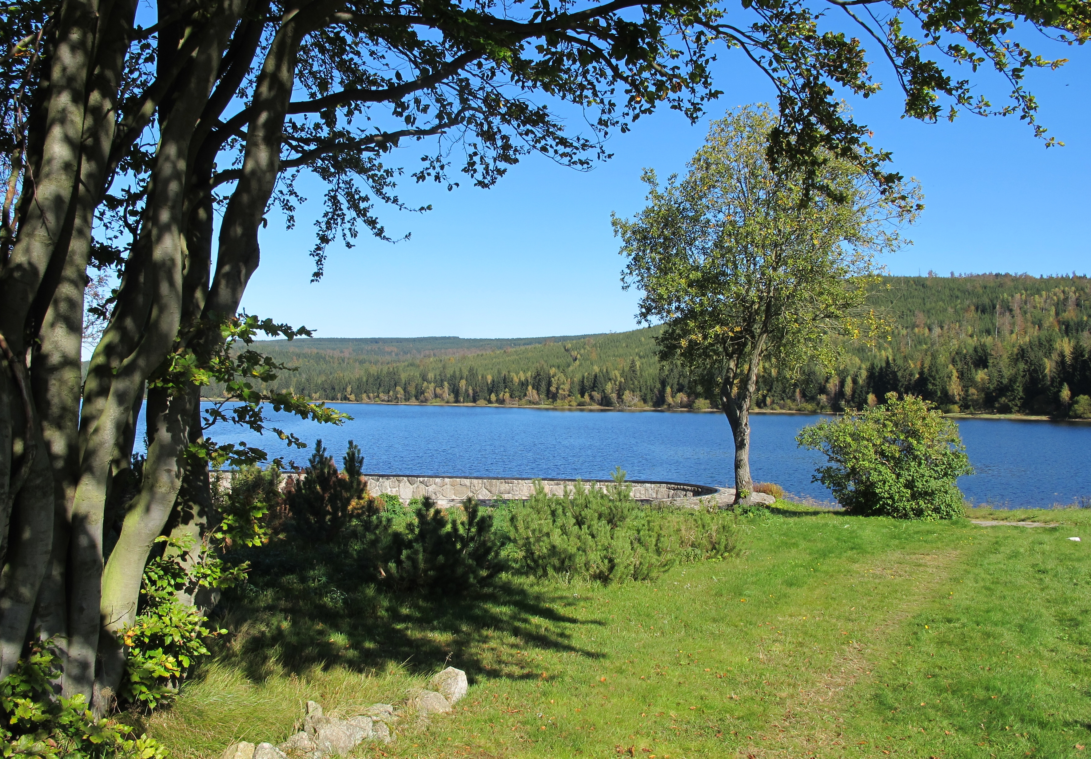 Souš Reservoir, Jablonec nad Nisou District in Czech Republic